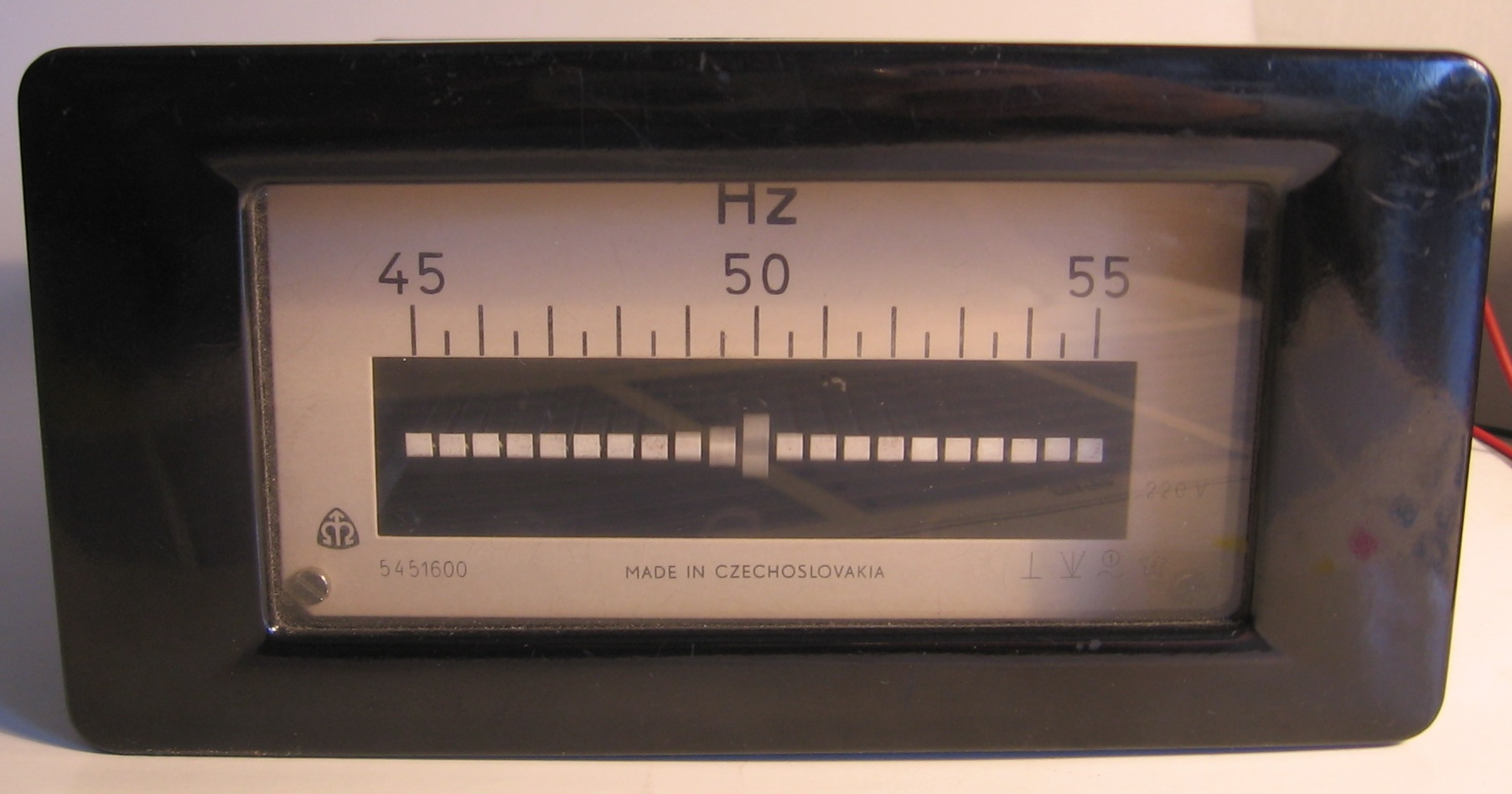 Mechanical resonance electromagnetic frequency meter - power frequency: result 49.9 Hz